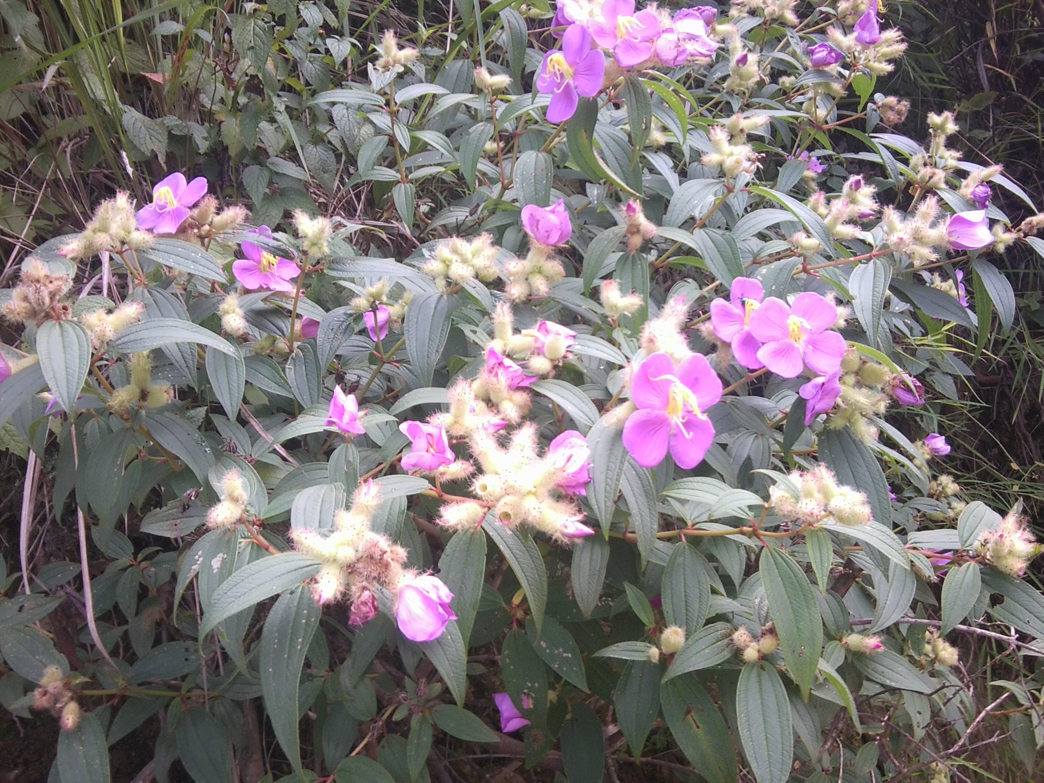 Osbeckia stellata plant found in Phoolbari VDC.